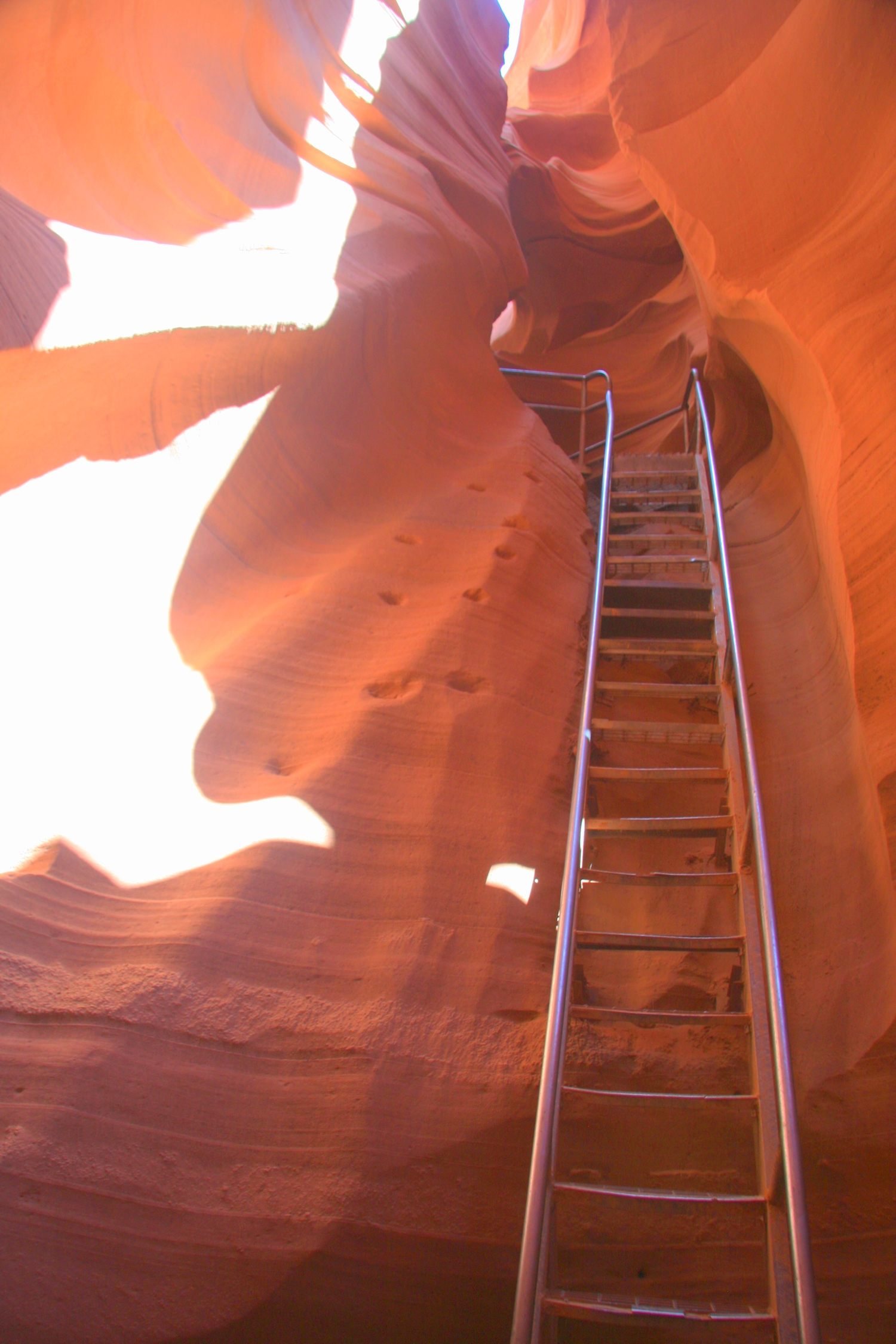 The lader in Lower Antelope Canyon